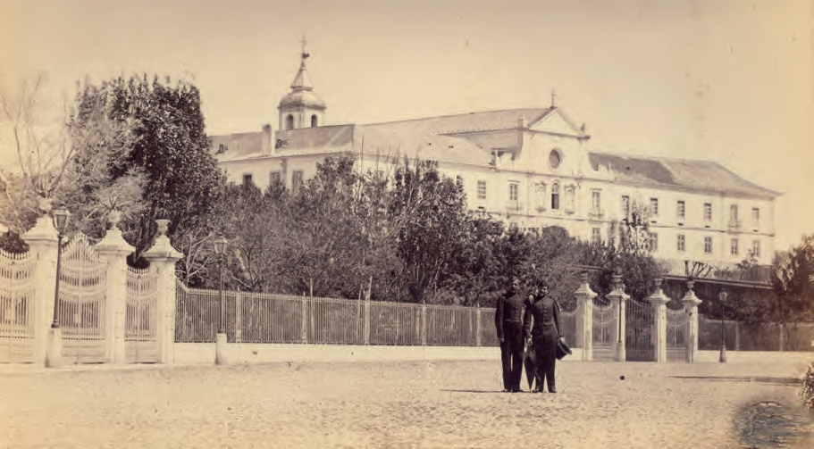 The Main Military Hospital ("Hospital Militar Principal") in Lisbon, Portugal, c. 1865, by Augusto Xavier Moreira.